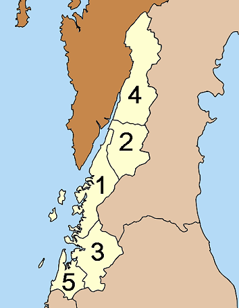 Map of Ranong province, Thailand, with the district (Amphoe) numbered. Mueang Ranong (อำเภอเมืองระนอง) La-un (อำเภอละอุ่น) Kapoe (อำเภอกะเปอร์) Kra Buri (อำเภอกระบุรี) Suk Samran (sub-district) (กิ่งอำเภอสุขสำราญ)